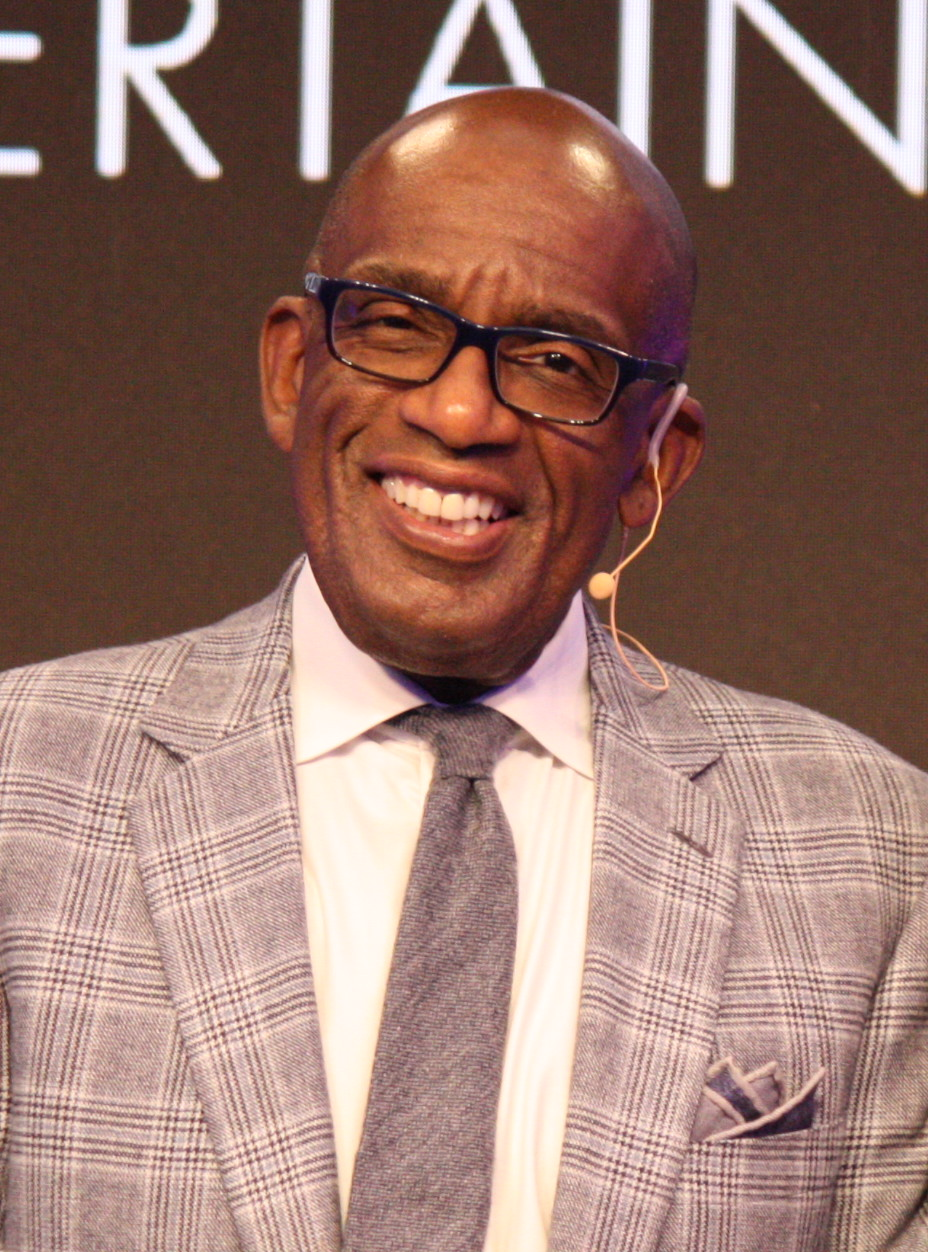 Al Roker